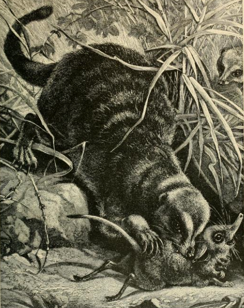 Meerkat killing an elephant shrew